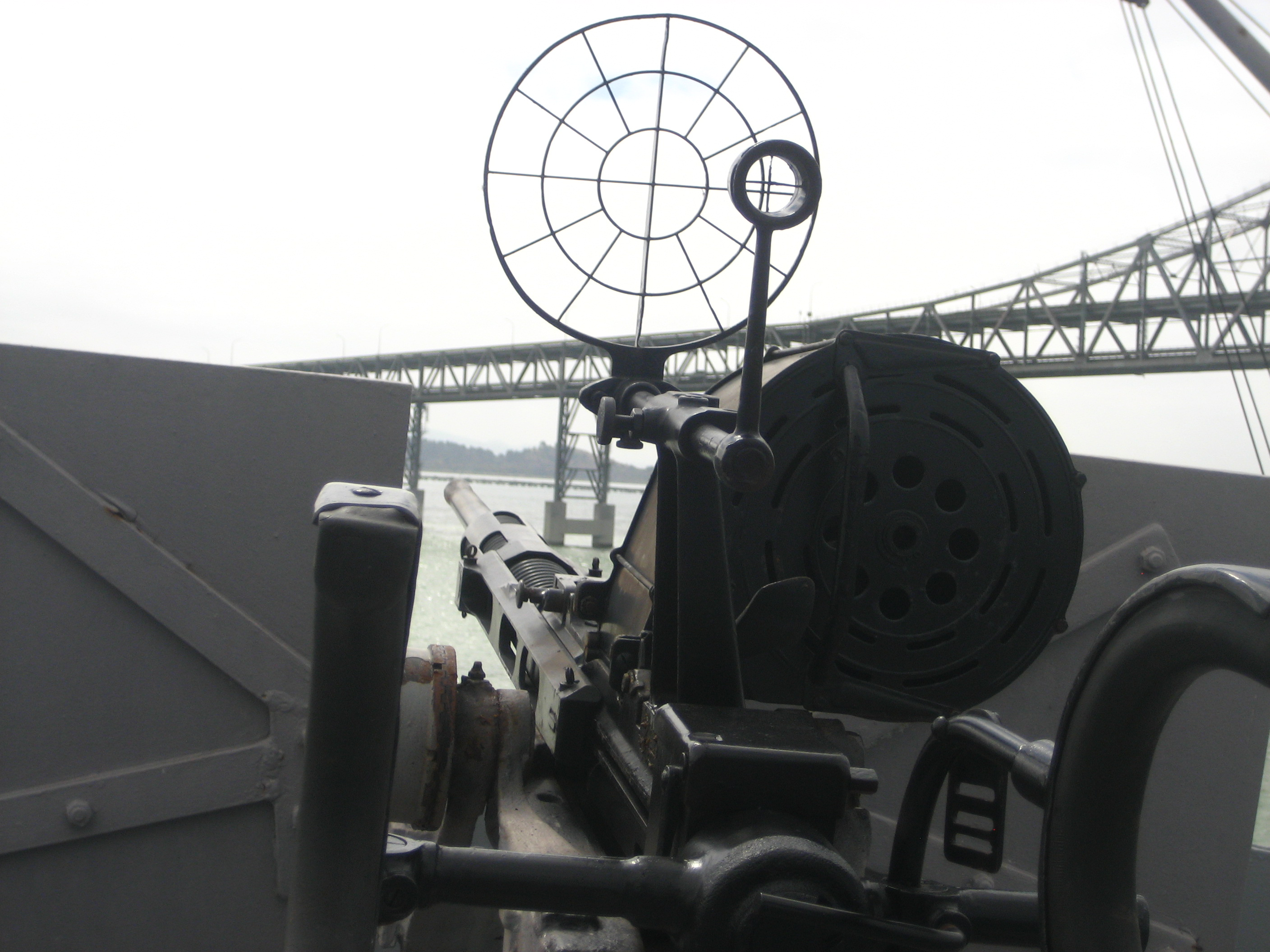 Oerlikon20 mm cannon on the SS Jeremiah O'Brien